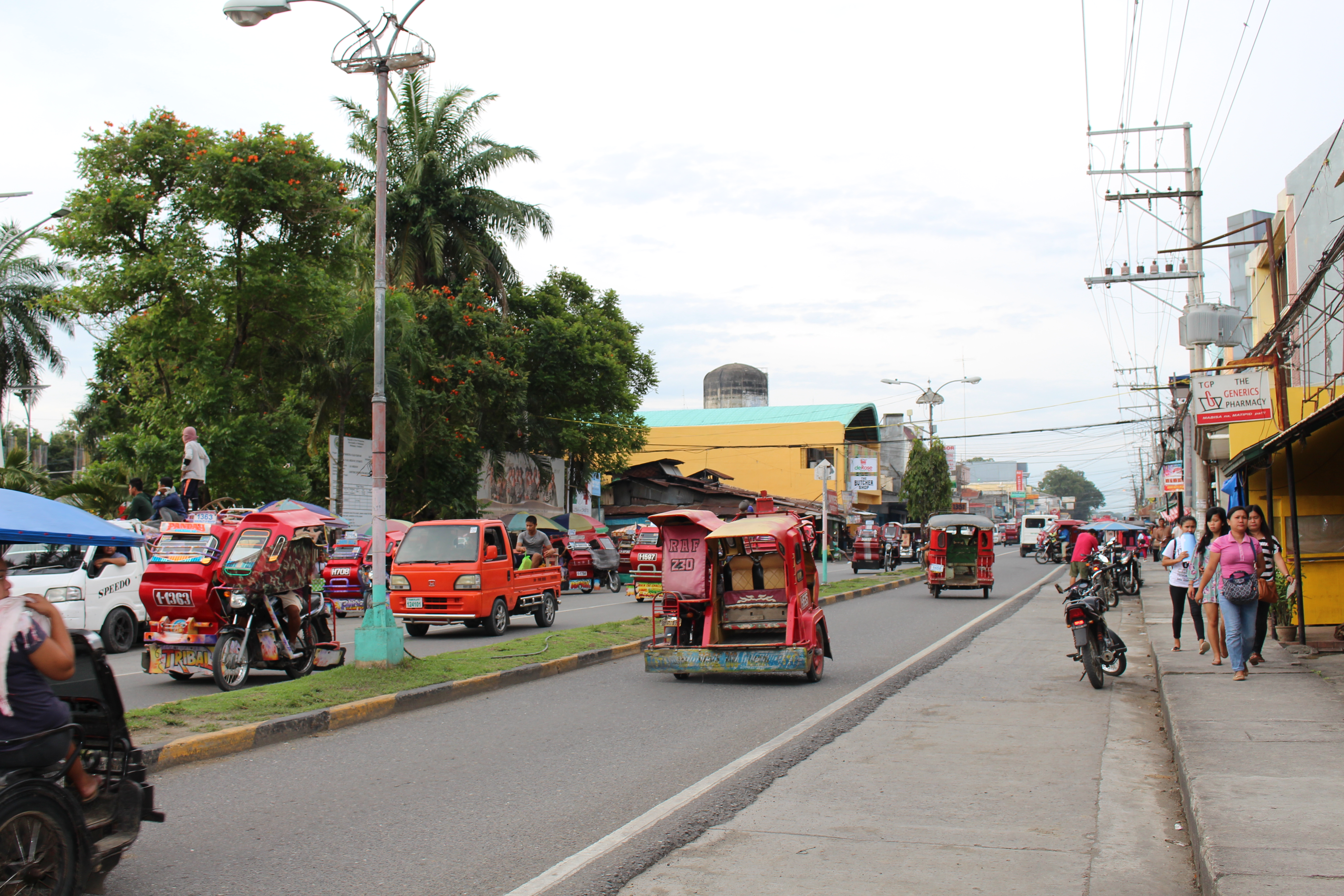 Midsayap's center of town.